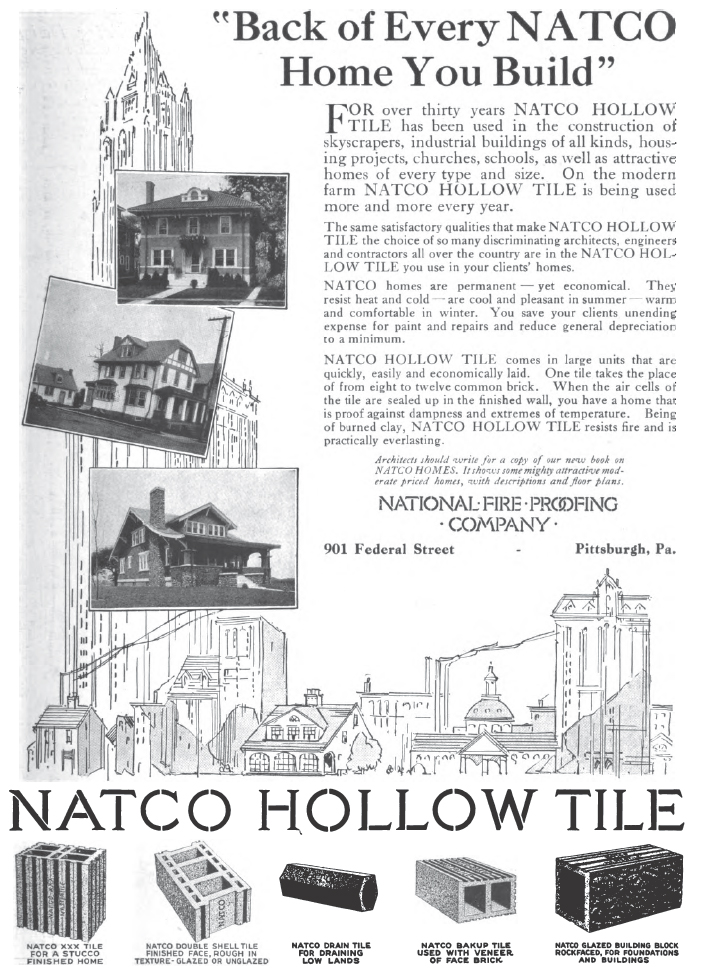 National Fireproofing Company (NATCO) advertisement for hollow clay tile (also called "structural clay tile") showing different styles and types of tile. From the pages of The Architectural Forum, vol. 33, issue 5-6 (1920).